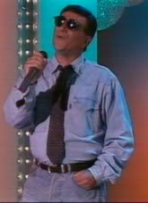 José Cid na década de 1990